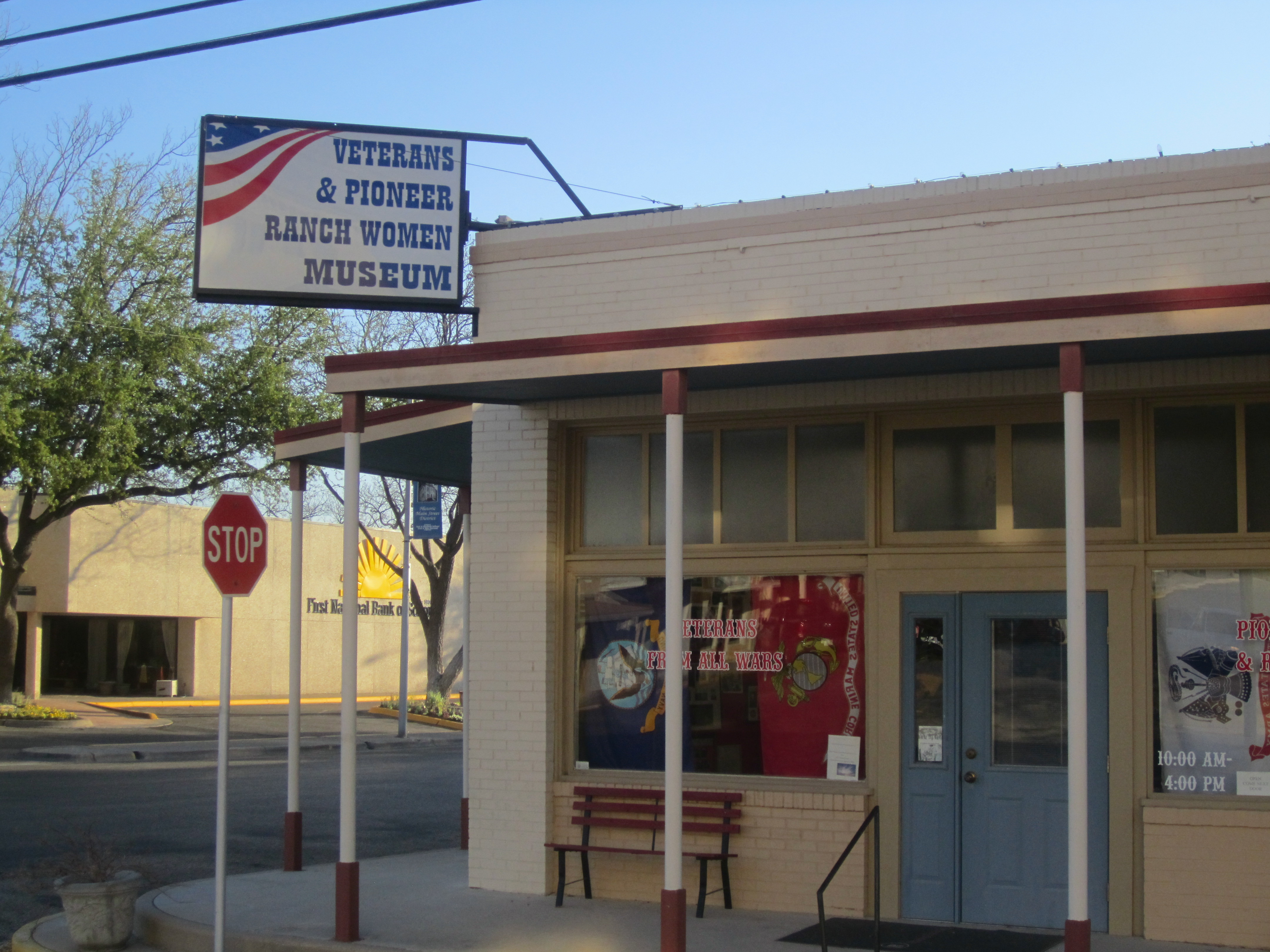 I took photo with Canon camera in Sonora, TX.